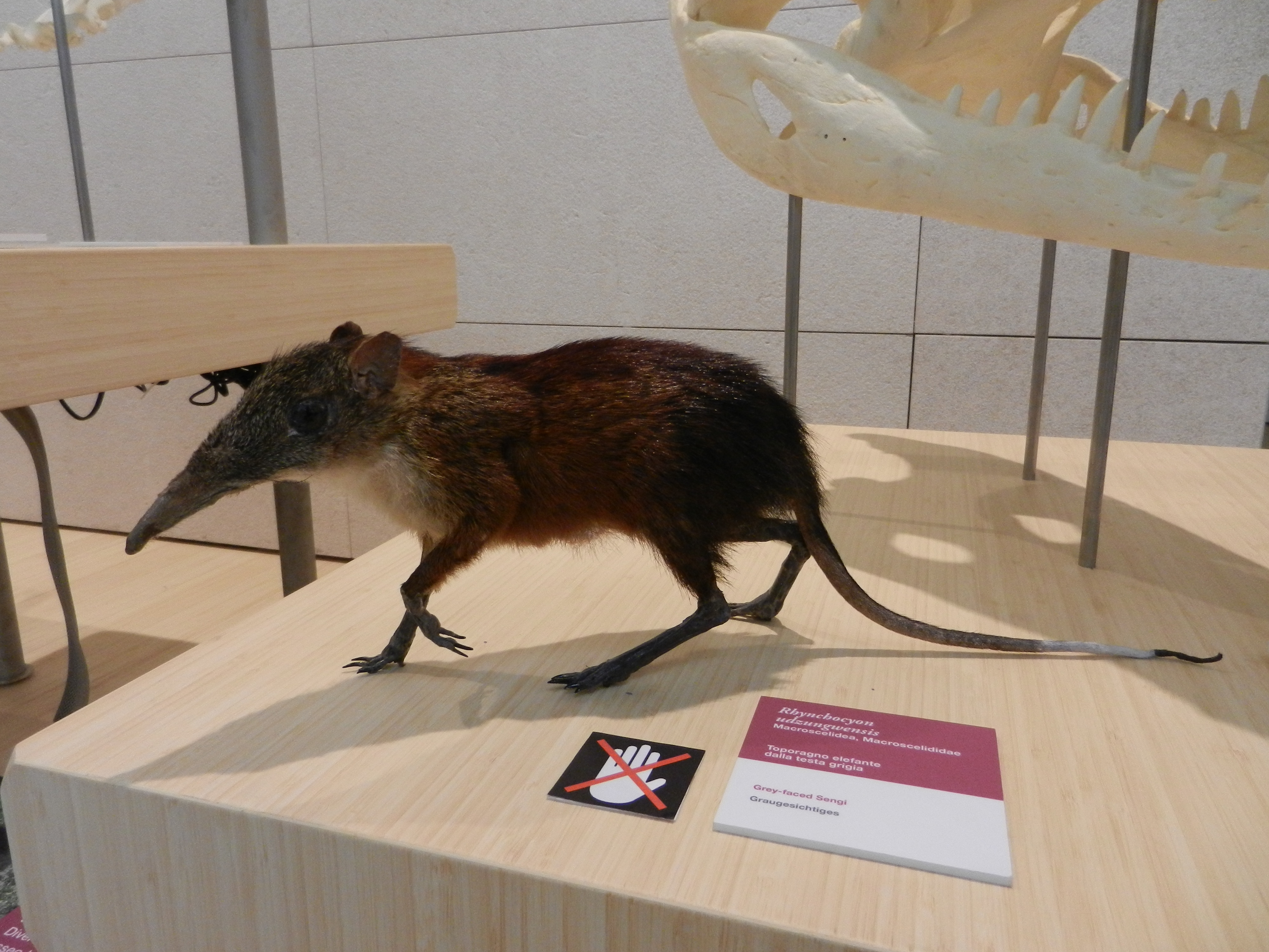 Photo taken at MuSe in Trento.